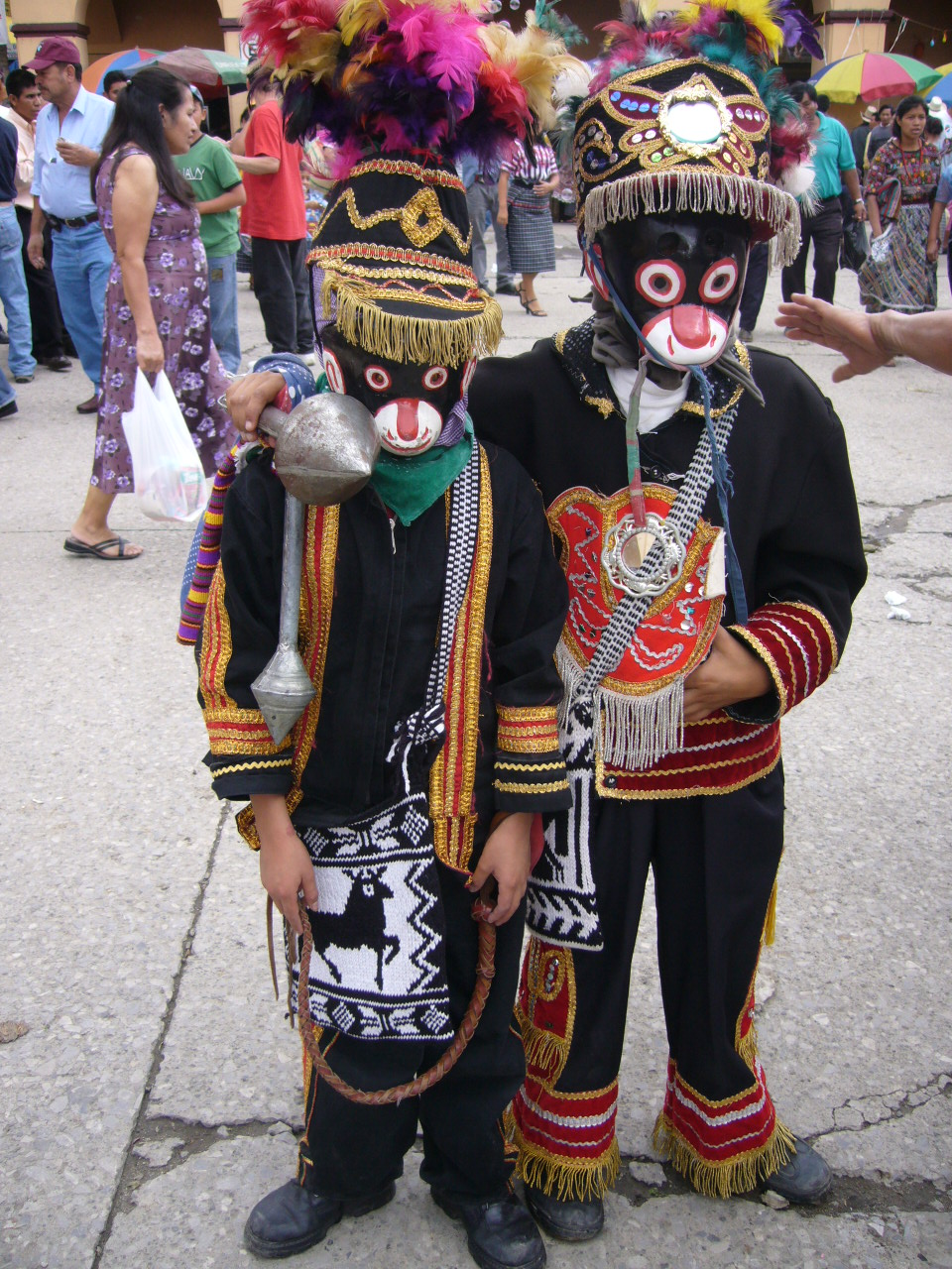 Monkeys from a traditional dance in San Juan Sacatepequez, Guatemala